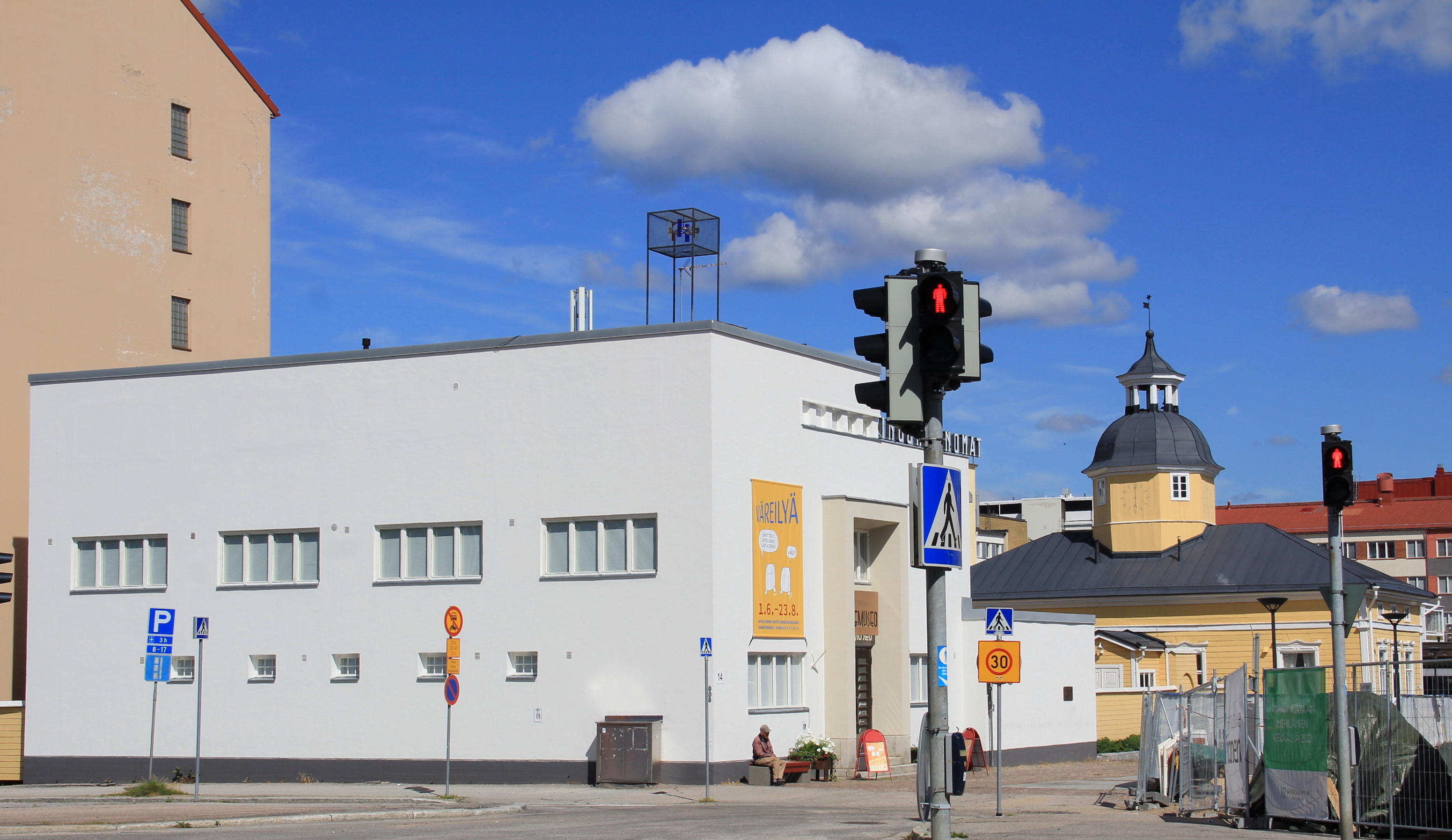 Kajaani art museum, Kajaani, Finland. - White Art museum exhibition building is designed by Eino Pitkänen and it was completed in 1936 (left). Art museum offices are located in yellow old City Hall which is most likely designed by Carl Ludvig Engel and completed in 1831 (right).